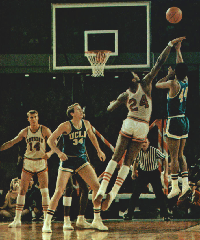 Houston's Don Chaney (#24) attempts to block a shot by UCLA's Michael Warren (#44) at the Astrodome in Houston during the 1968 Game of the Century